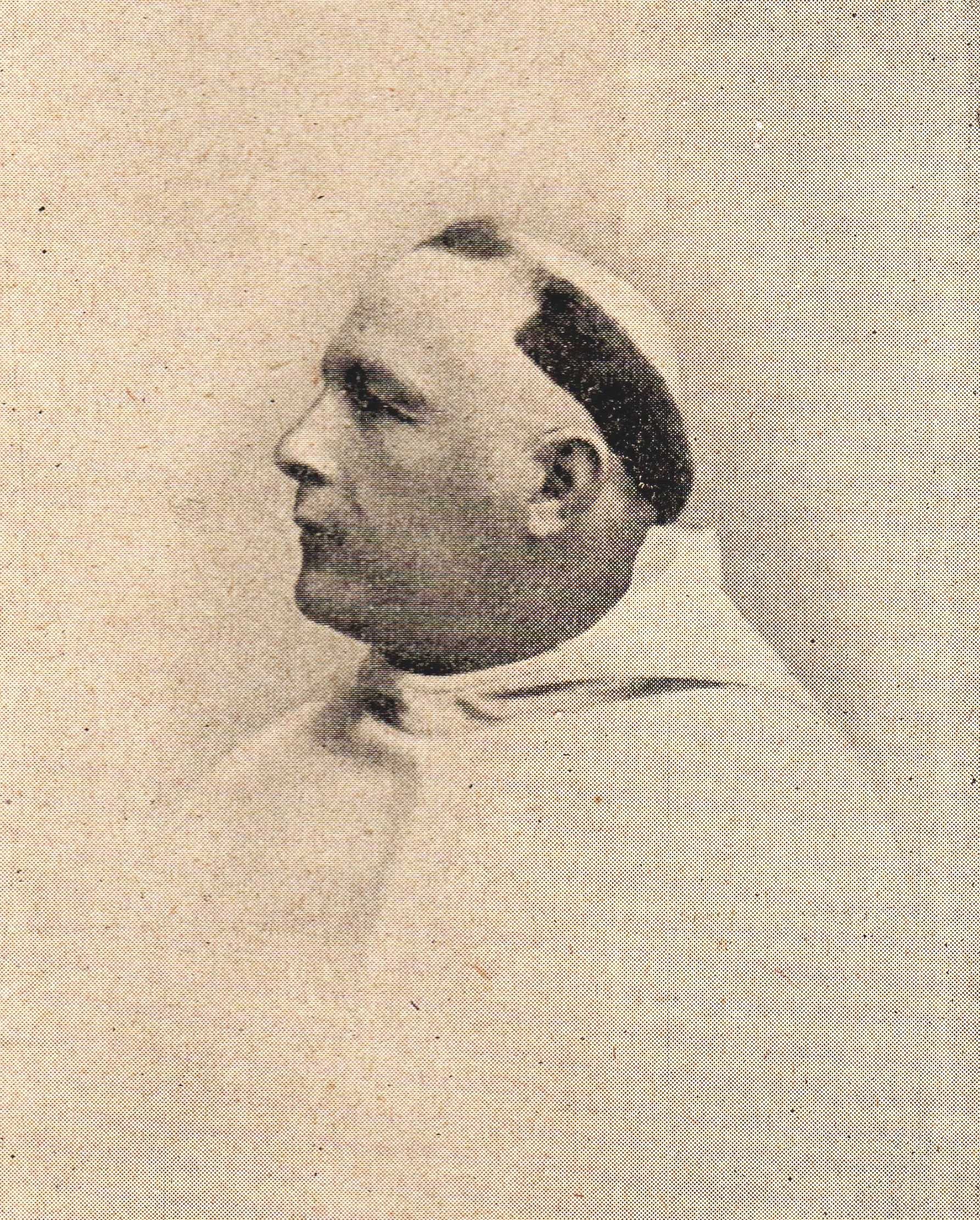 Xavier de Forviera's picture (taken from En montanha)